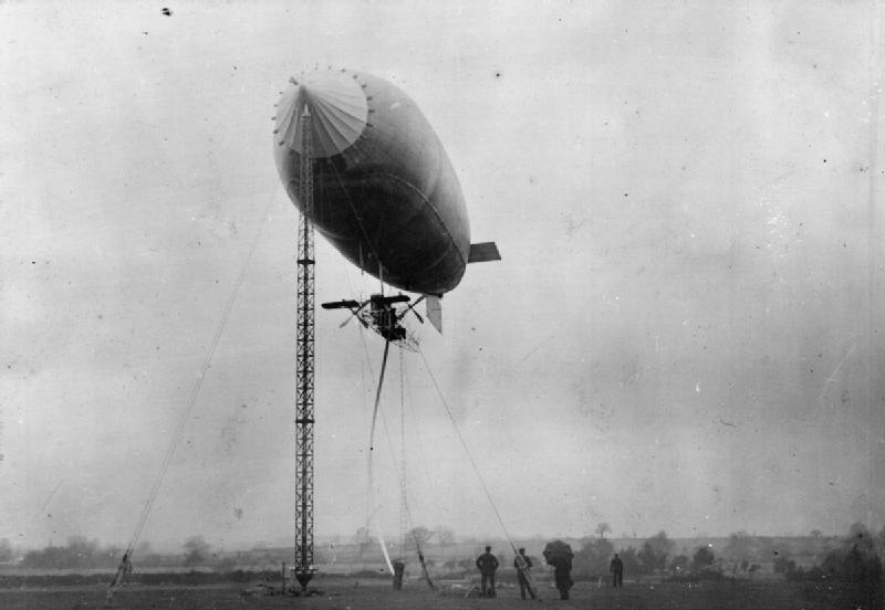 Aviation in Britain Before the First World War The army airship Beta docking with a portable mooring post.